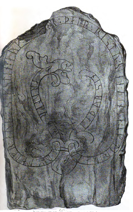 The runestone Sö 291. The inscription reads -a(r)-lfr/(þ)(o)(r)-lfr auk * ulfr : auk : sikstin : auk ...ar : þair : ristu : sain : þinsa : iftir : ualt faþur sin. In English "Farulfr(?)/Þórulfr(?) and Ulfr and Sigsteinn and Gunnarr(?), they raised this stone in memory of Hróaldr(?), their father."